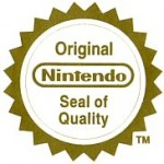 "Original Nintendo Seal of Quality" in a gold circular starburst, as used in PAL regions.